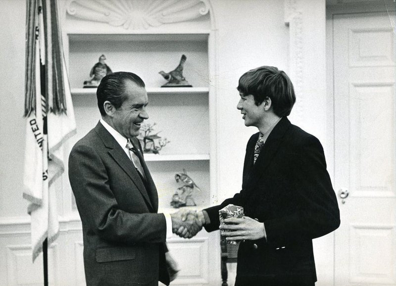 John Kasich meets Nixon